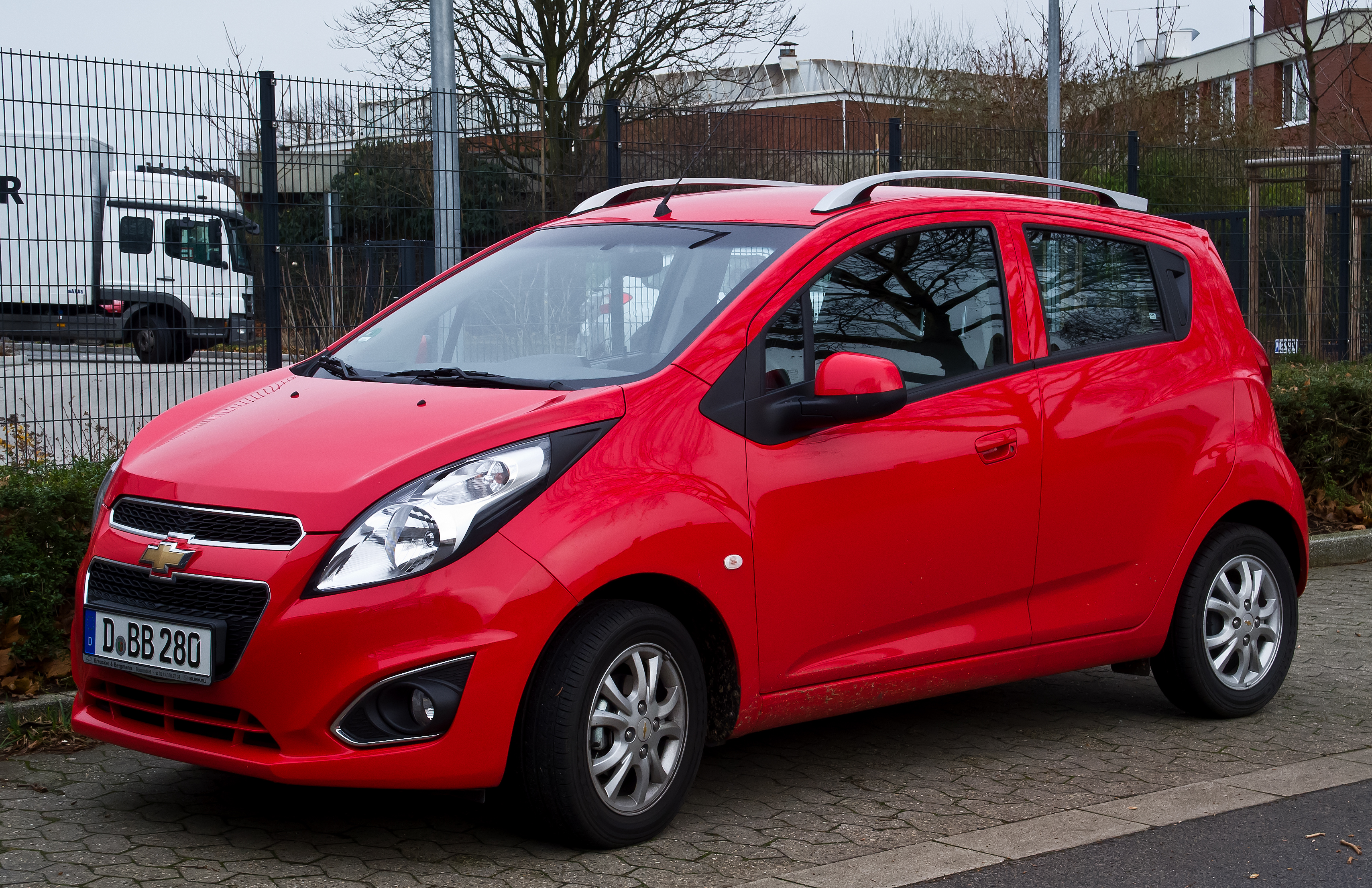 Chevrolet Spark LT+ 1.2 (Facelift)